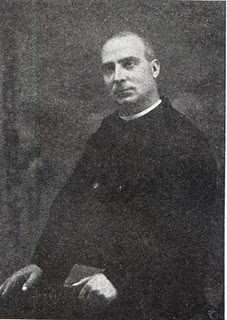 Old photograph of Josep Samsó, ca. 1920